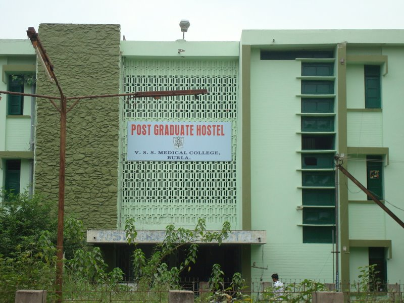 pg hostel of vssmc.